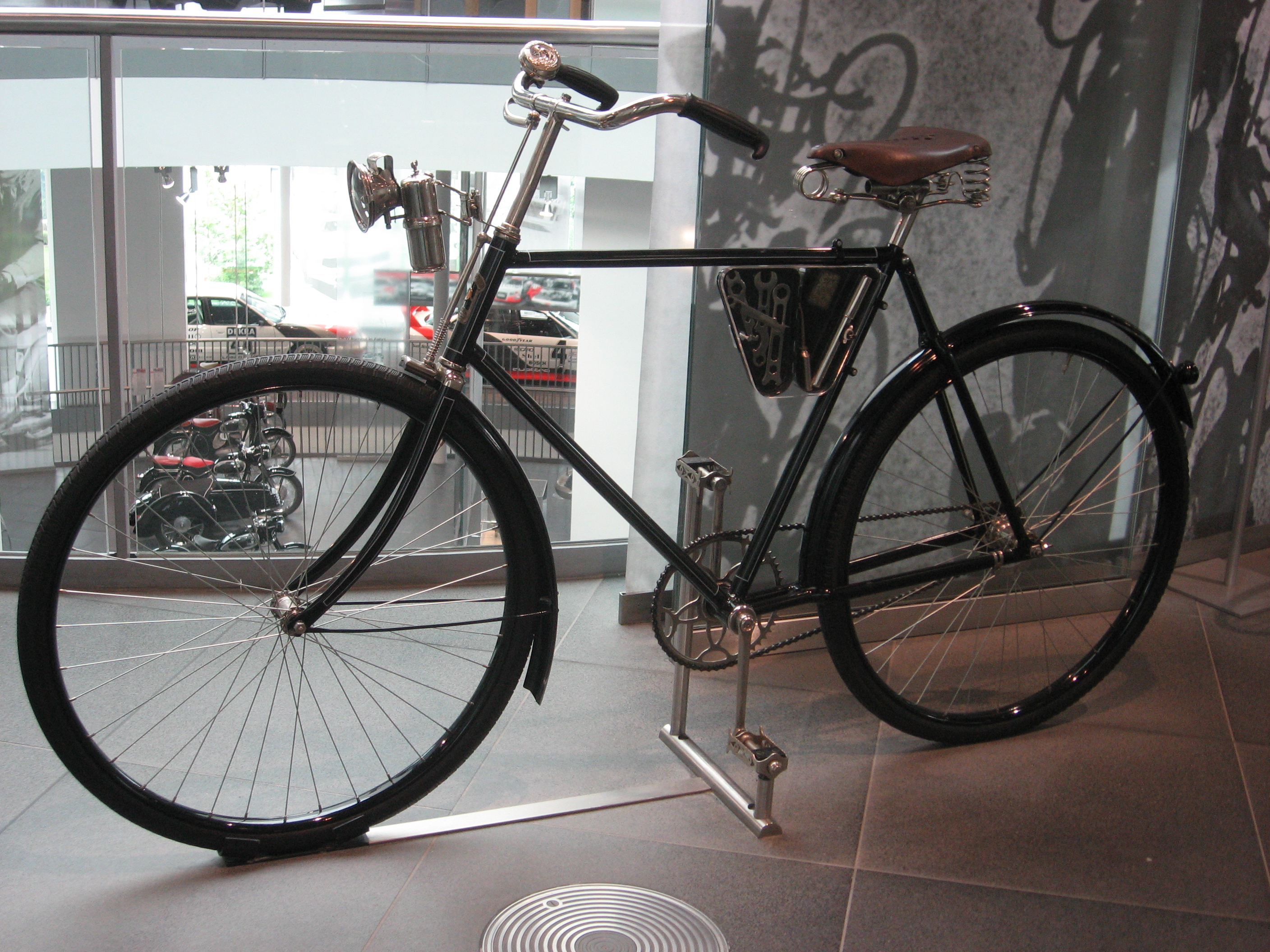 Subject: An ancient bycicle Typ 1 built by Wanderer in 1907 Author: Luc106 Date:Juna 13th, 2011 Place/Country: Audi Museum, Ingolstadt, Germany I release all rights in the public domain.